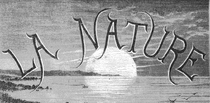 Logo used on most of the issues of "La Nature" magazine